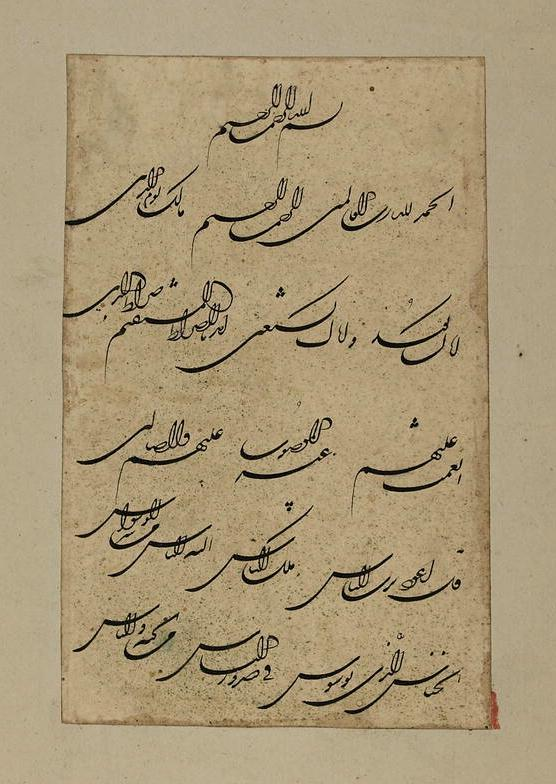 This calligraphic fragment is executed in fine shikastah (literally, "broken") script and includes an initial bismillah and chapters (surahs) 1 and 114 of the Qur'an. At the top appears the first chapter of the Qur'an, entitled al-Fatihah (The Opening).These two short surahs from the Qur'an appear together here probably because they are short, easily memorized, and recited aloud. It is quite unusual, however, to find Qur'anic verses executed in shikastah, a very fluid script invented in Persia (Iran) by the 18th-century calligrapher Darvish 'Abd al-Majid al-Taliqani (Tavoosi 1987: 34-35). During the 18th and 19th centuries, Qur'ans were written in naskh or nasta'liq, as these scripts were more legible than shikastah. For this reason, this particular fragment stands out as scarce proof that some Qur'anic ayahs were executed in shikastah in Iran during the 18th-19th centuries.